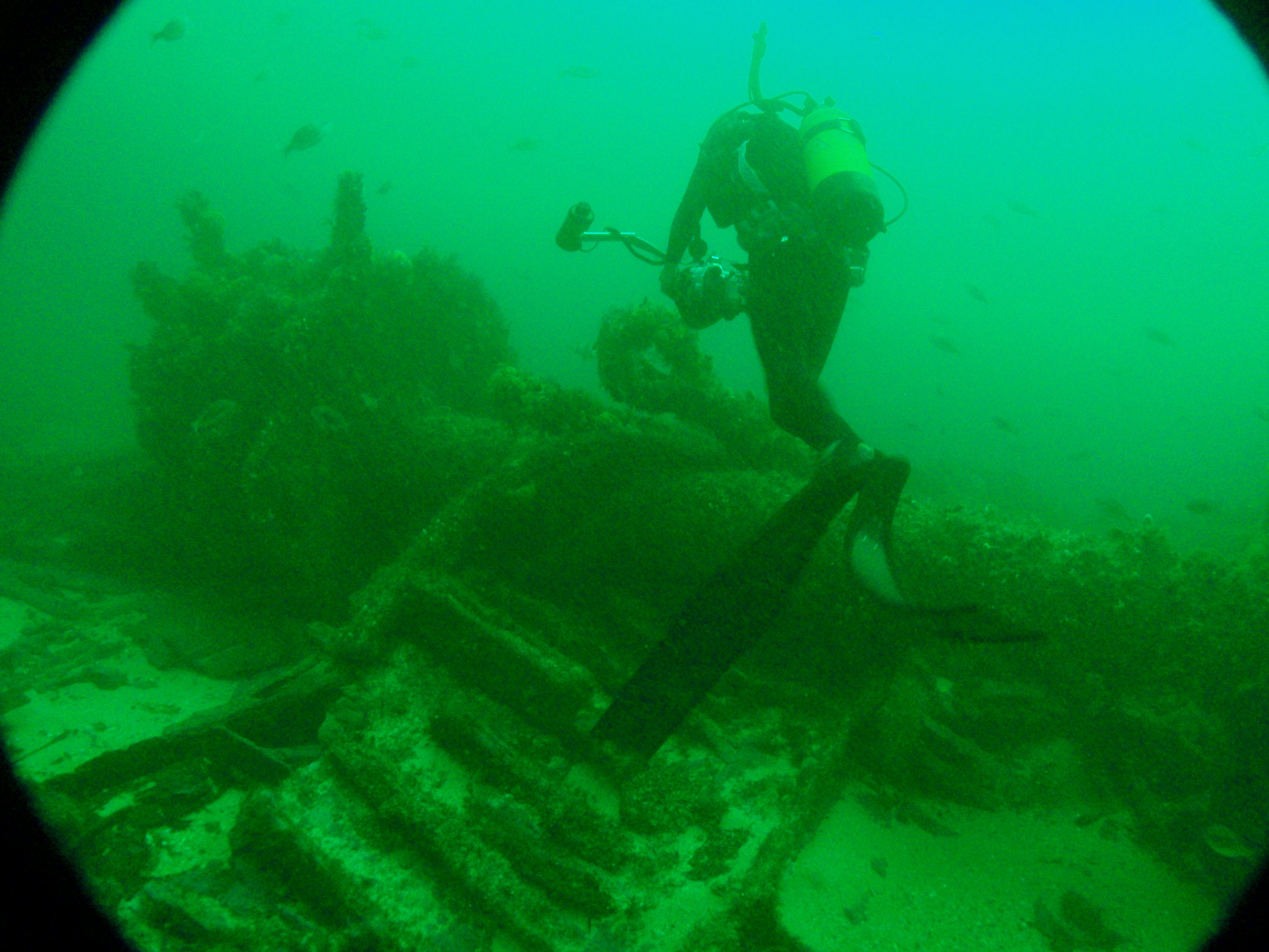 Divers over a paddle wheel shaft on the wreck of the HMS Birkenhead, Gansbaai.